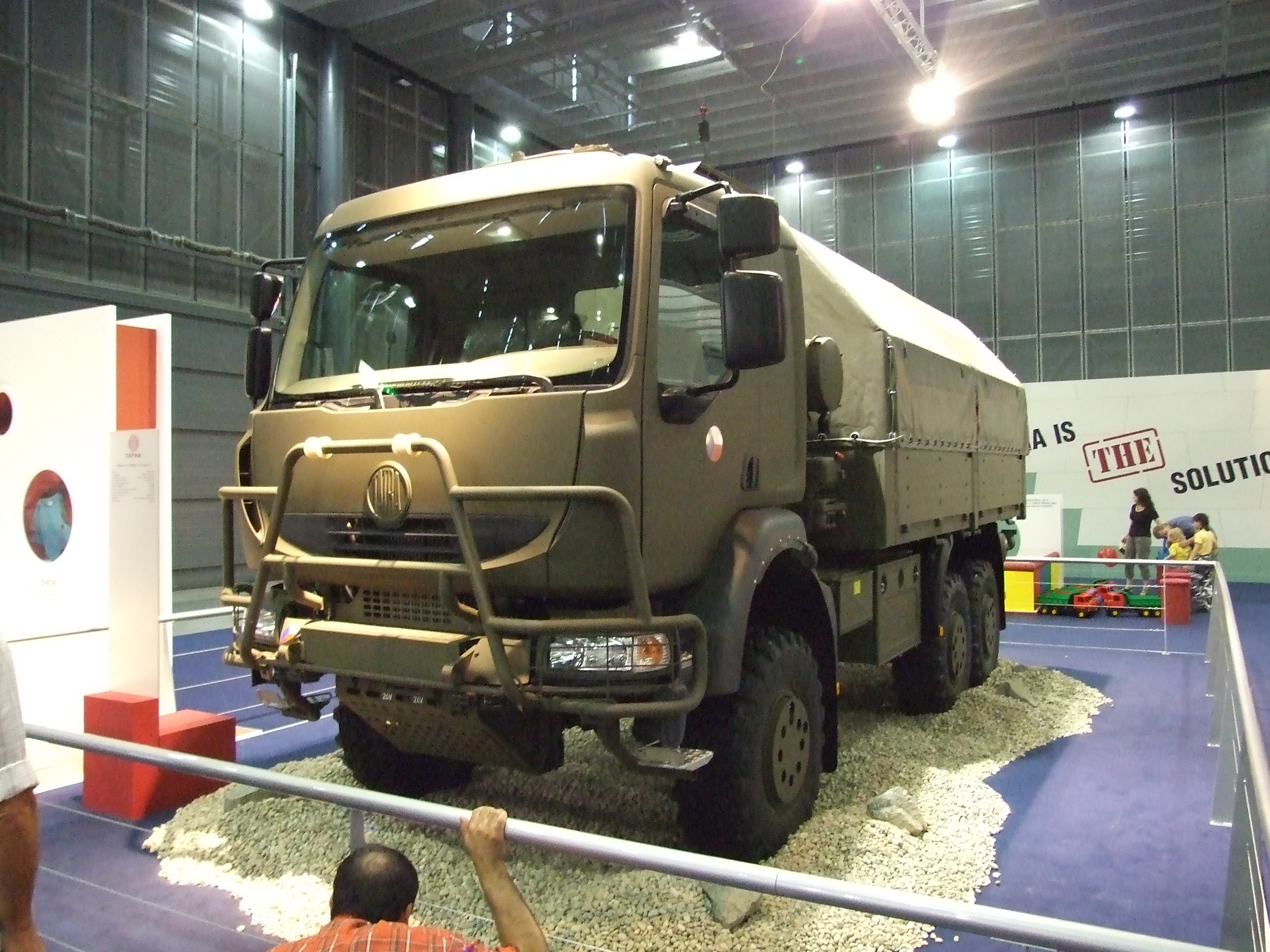 Tatra T810 truck for Czech army.